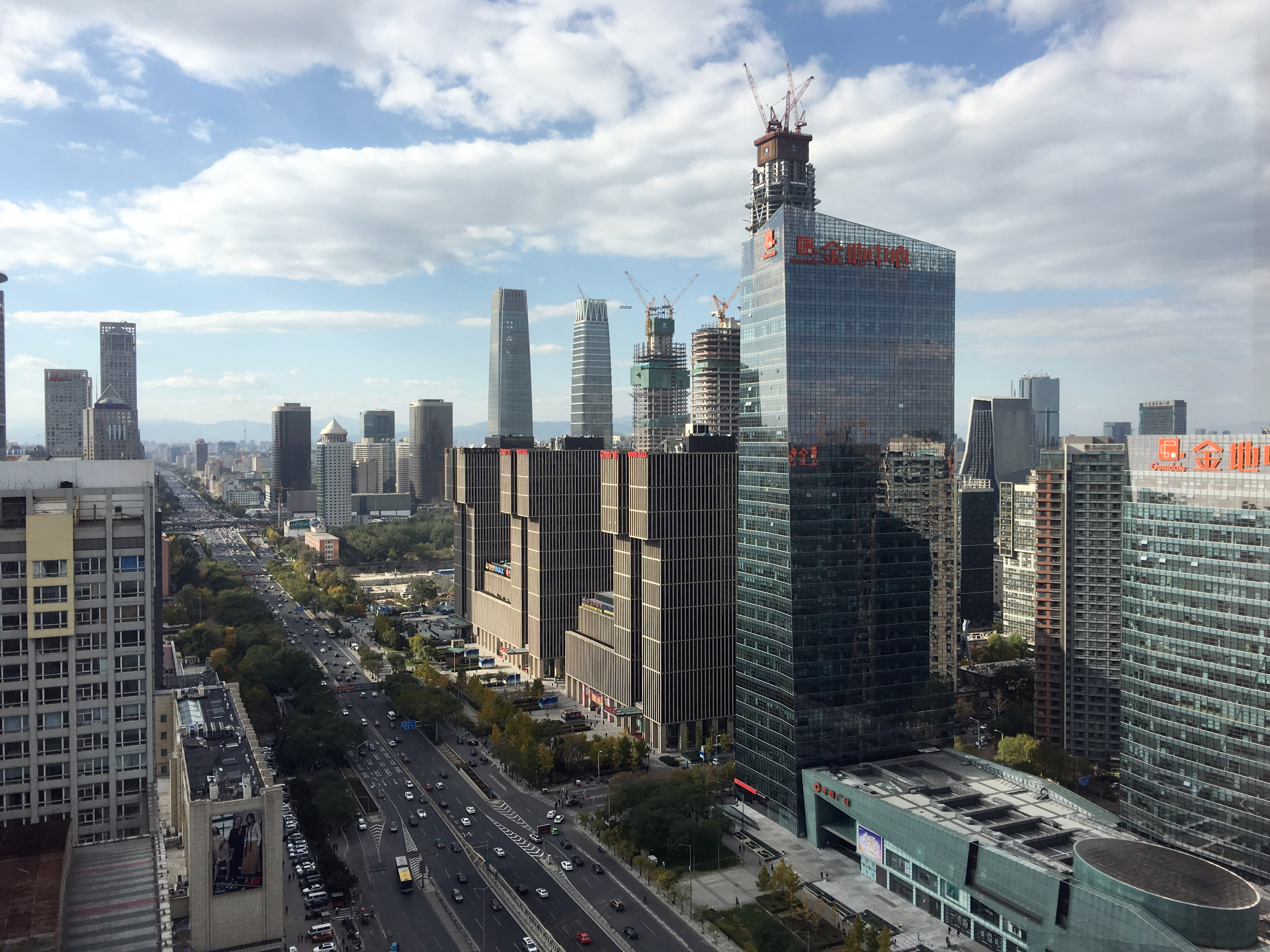 Beijing CBD